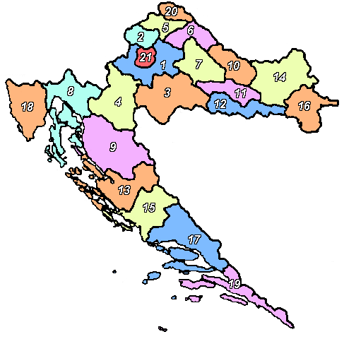 Regions of Croatia